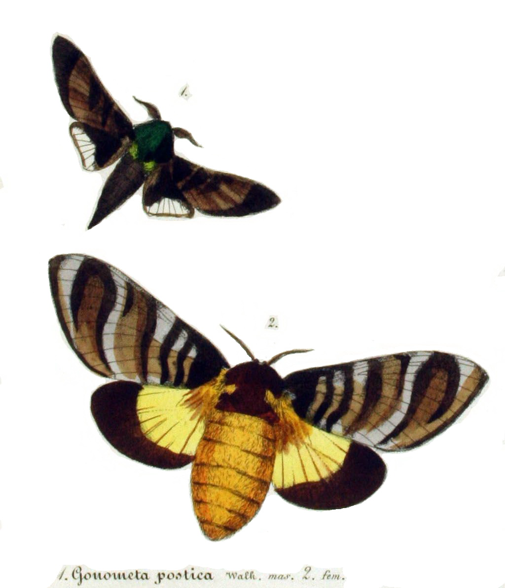 Gonometa_postica female and male moths, Plate 84 "Reise der österreichischen Fregatte Novara um die Erde in den Jahren 1857, 1858, 1859 unter den Befehlen des Commodore B. von Wüllerstorf-Urbair." Akademie der Wissenschaften in Wien. Felder, Cajetan, Freiherr von, 1814-1894 Wüllerstorf-Urbair, Bernhard, Freiherr von, 1816-1883